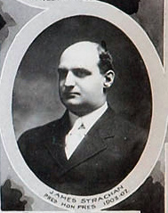 Profile of James Strachan, owner of Montreal Wanderers, for 1908 team photo collage.